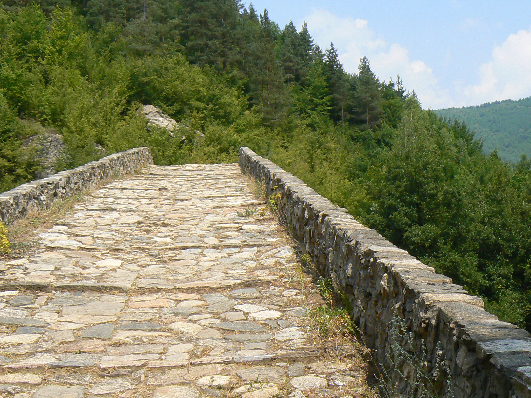 Devil's Bridge near Ardino, Bulgaria